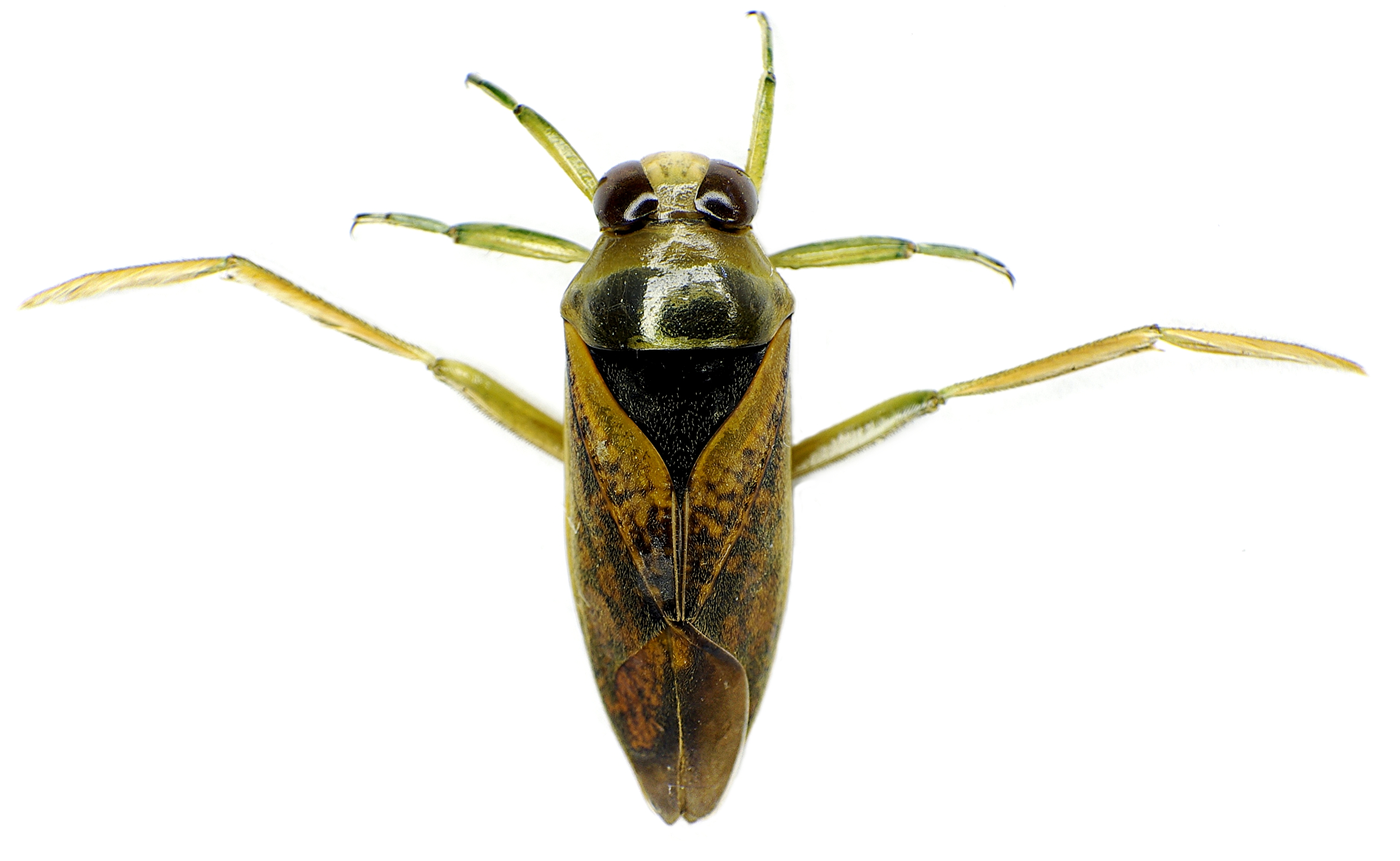 Notonecta maculata from Southern Germany